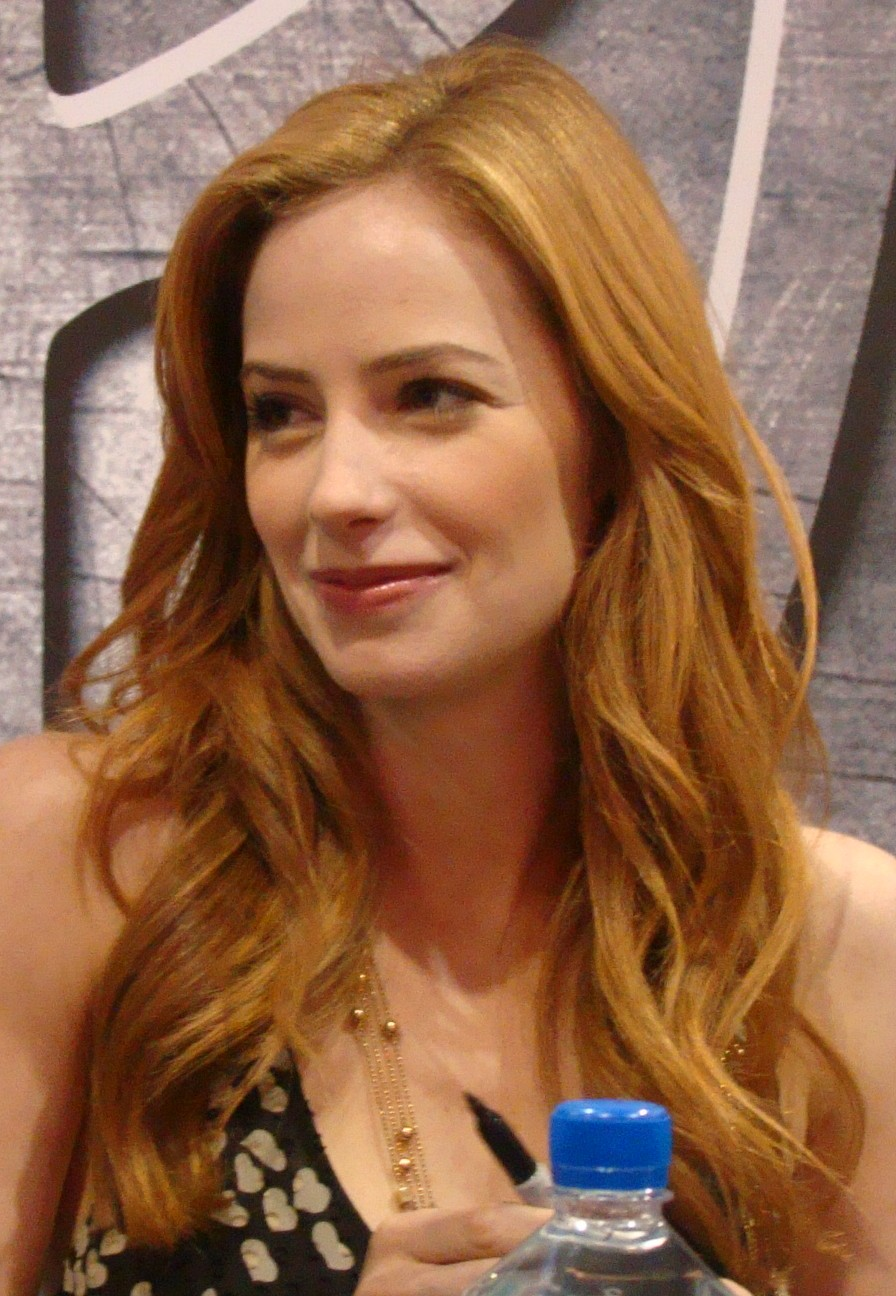 Jaime Ray Newman at ComicCon 2009